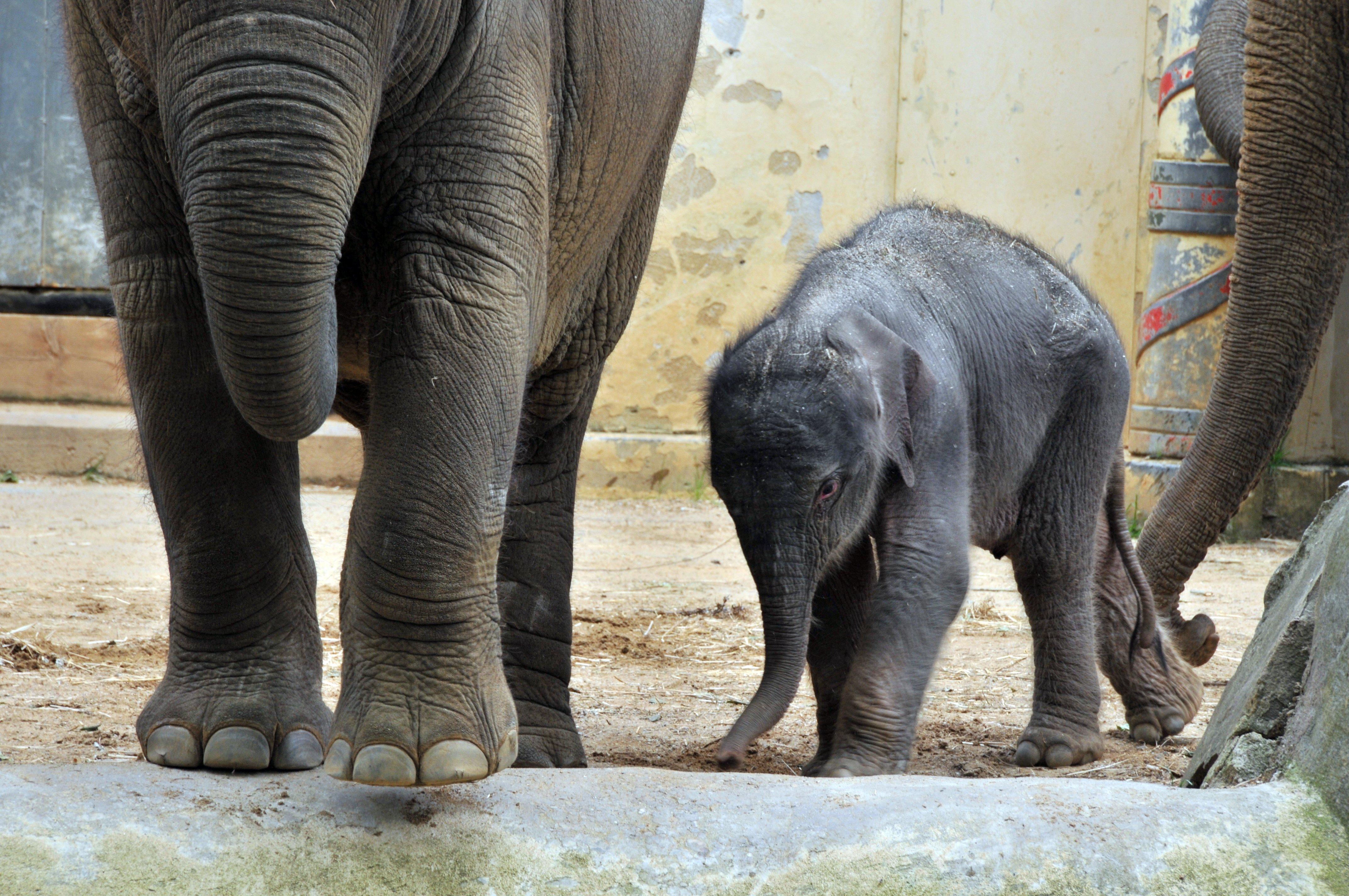 the little elephant Kai-Mook from the Antwerp Zoo (Belgium)